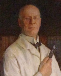 Portrait of Vaino Grönholm, Past Professor of Ophthalmology, University of Helsinki